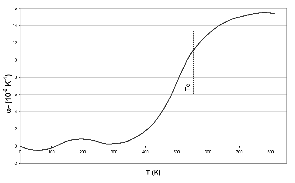 Thermal expansion of Invar as a function of temperature